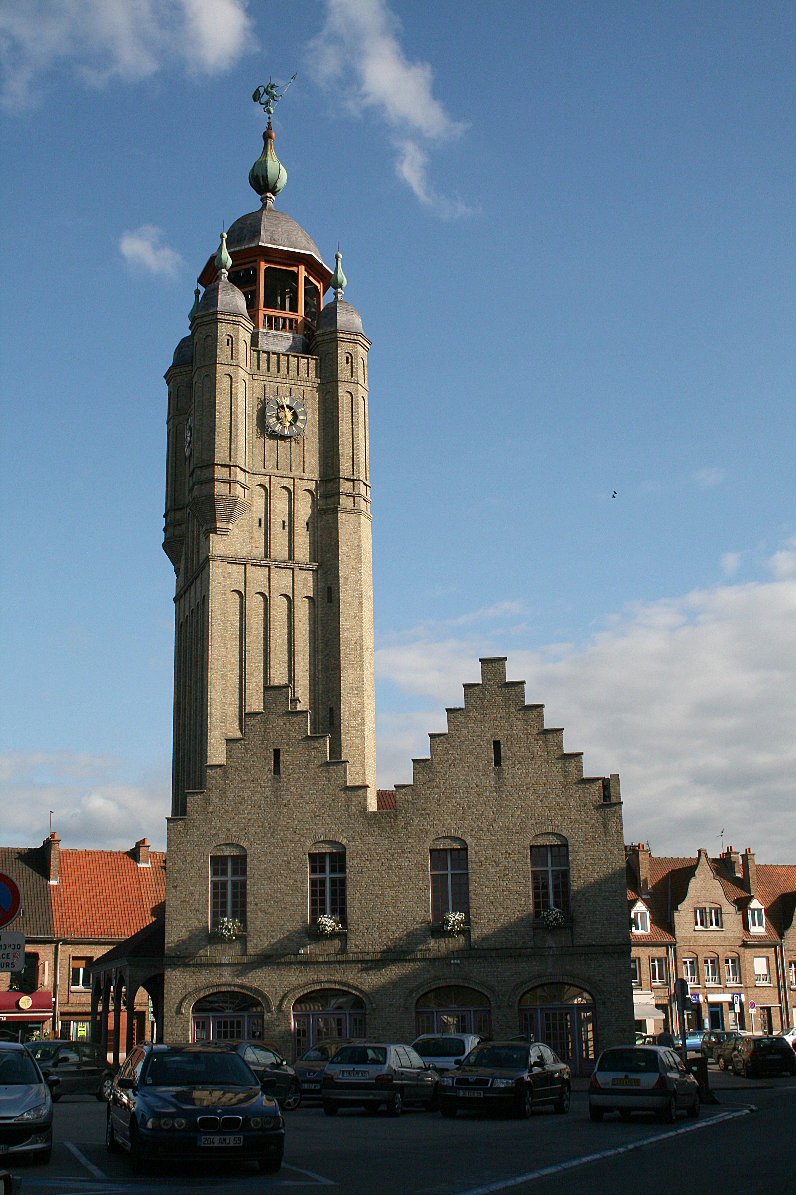 Belfry rebuilt in 1961 in Bergues, a French commune in the Nord department in Hauts-de-France.